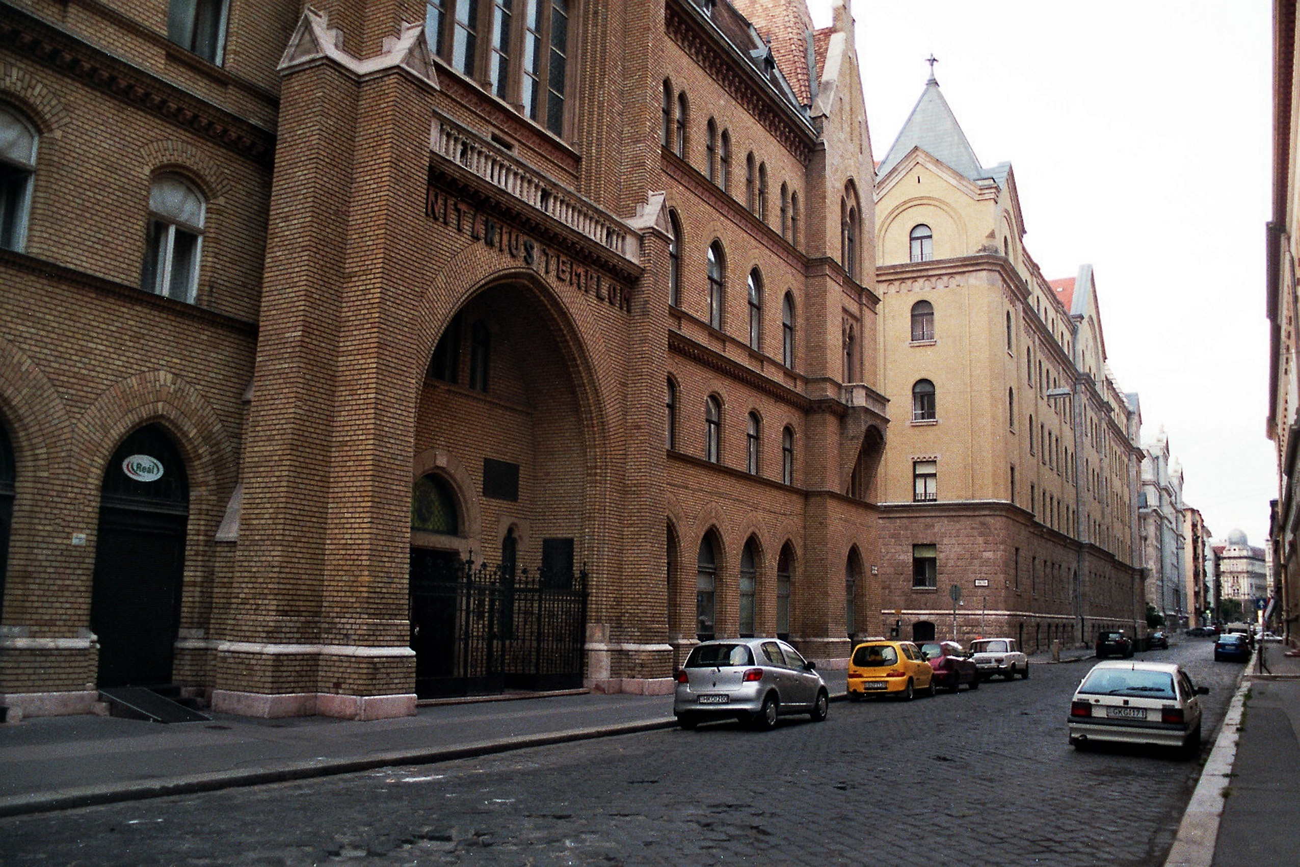 Budapest, the Unitarian Church